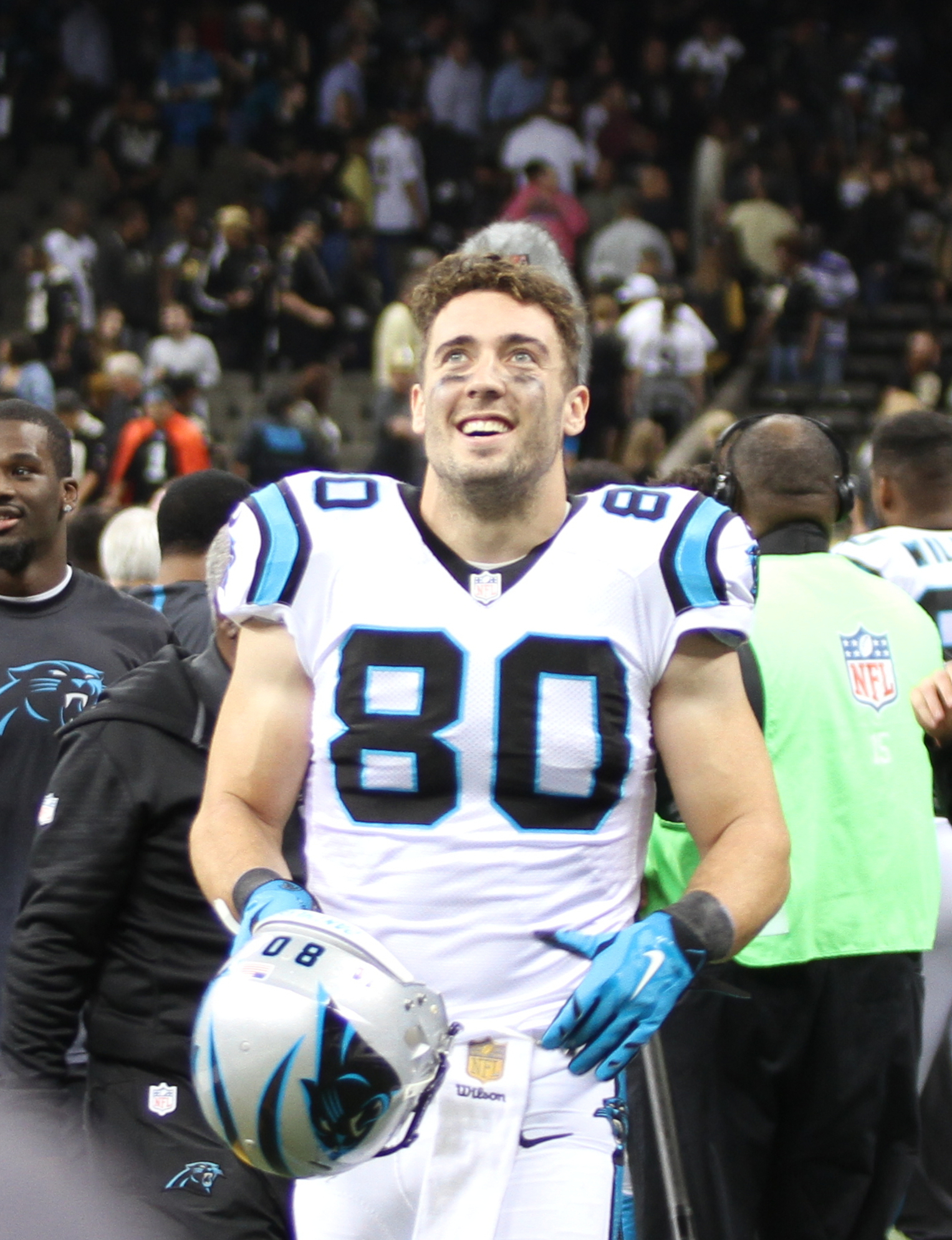 Tammy Anthony Baker, Photographer